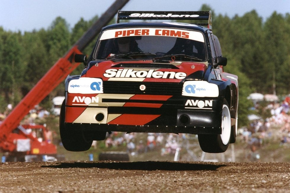 Briton Will Gollop flying his MG Metro 6R4 BiTurbo over the Höljesbanan jump en route to overall victory in the 1991 Swedish FIA European Rallycross Championship round.